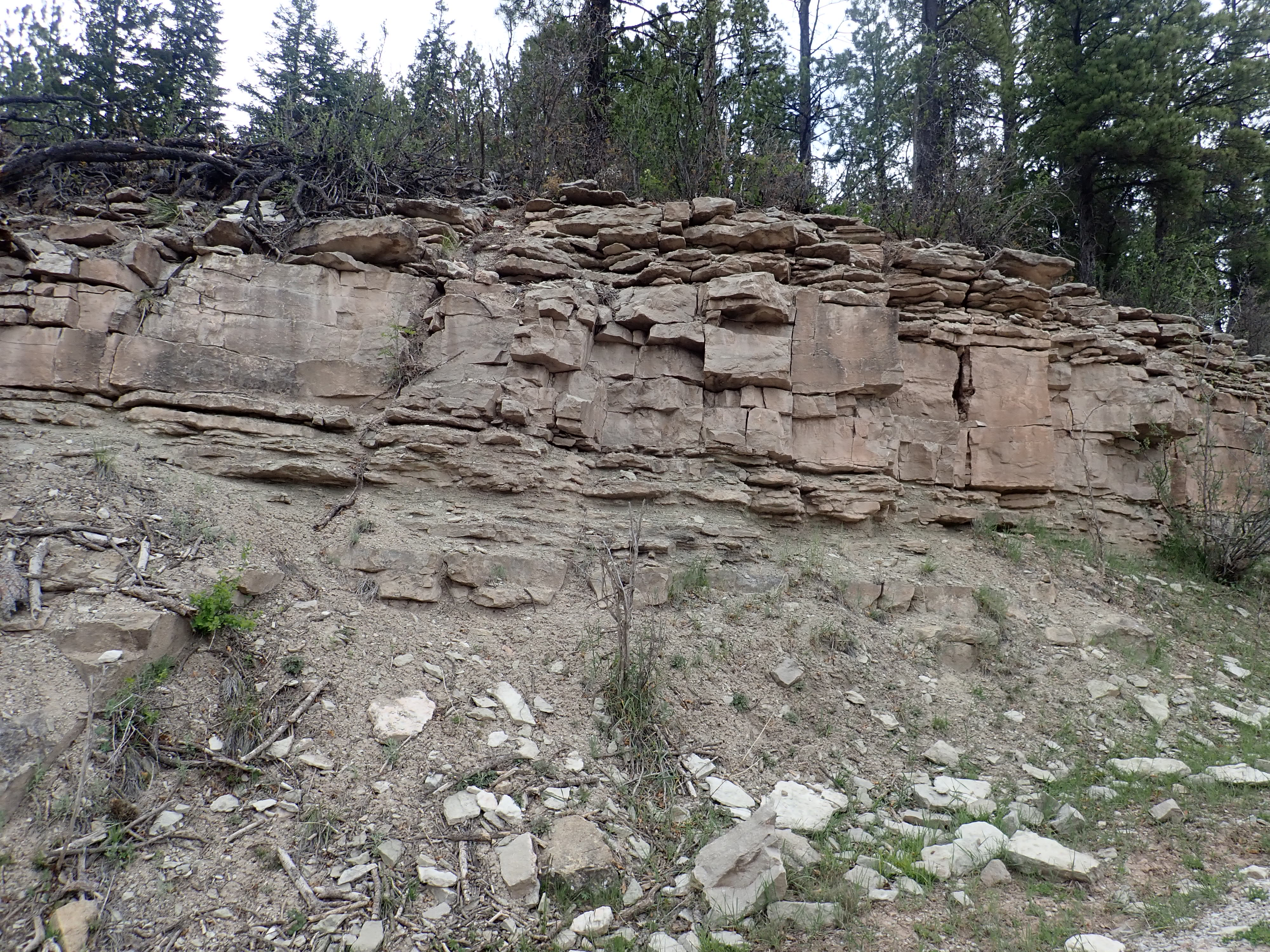 This image shows limestone beds of the Pennsylvanian Madera Formation in the San Pedro Mountains, New Mexico, United States.